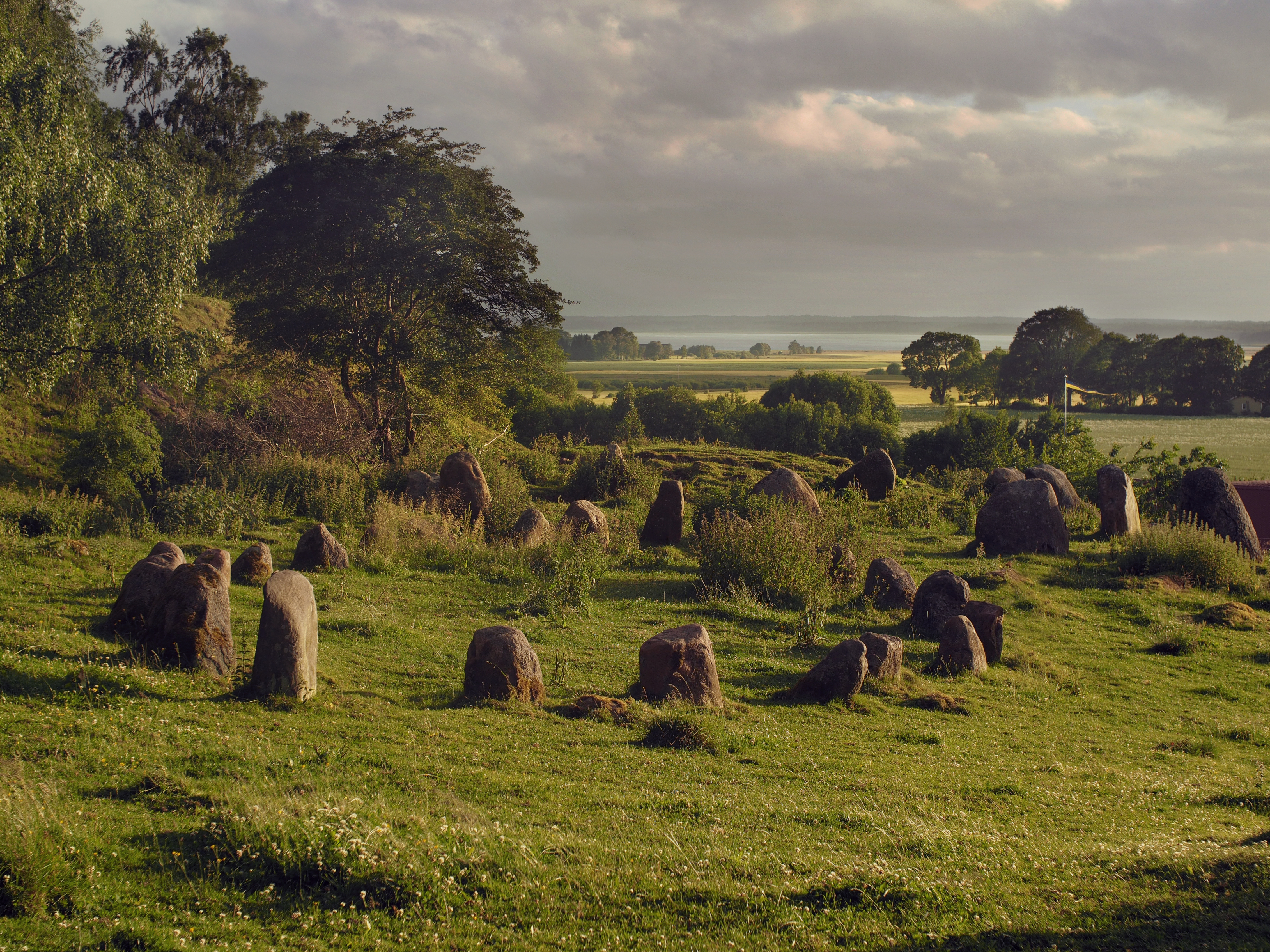 A stone ship at the Amundtorp Iron Age burial ground, with Lake Hornborga in the distance.